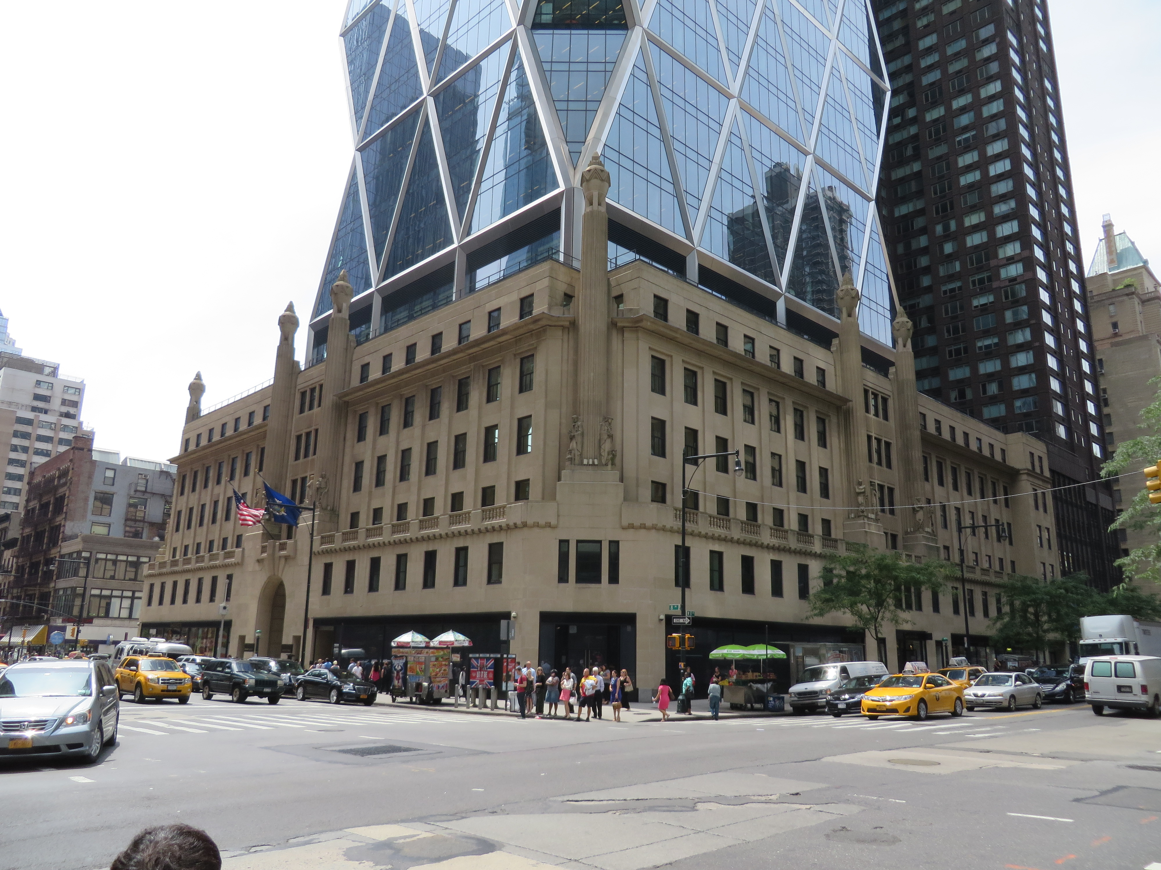 Hearst Tower, 300 West 57th Street, Manhattan, New York.